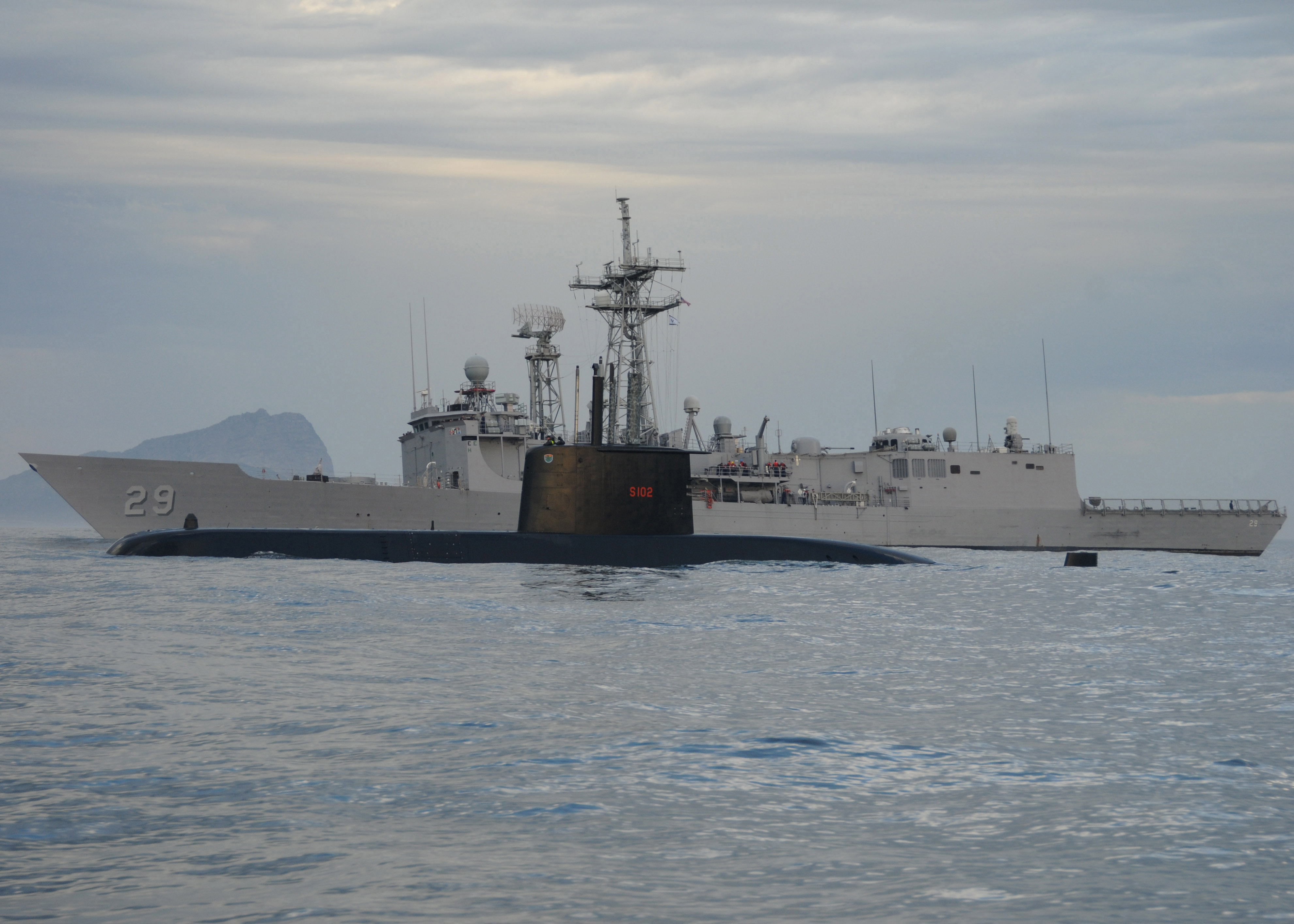 ATLANTIC OCEAN (Feb. 10, 2011) The Oliver Hazard Perry-class frigate USS Stephen W. Groves (FFG 29) participates in exercises with the South African navy Heroine-class submarine SAS Charlotte Maxeke (S-102) off the coast of South Africa. (U.S. Navy Photo by Mass Communication Specialist 3rd Class William Jamieson/Released)